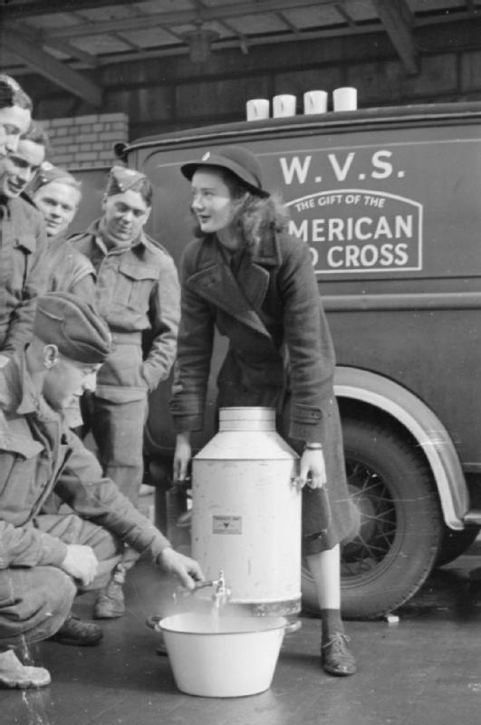 Blitz Canteen- Women of the Women's Voluntary Service Run a Mobile Canteen in London, England, 1941 After tea, a group of Royal Engineers help Patience 'Boo' Brand fill up the washing up bowl with hot water from the water urn. The Engineers have been building bridges across bomb craters on main thoroughfares and have just bought afternoon tea and buns from the WVS tea car (which can be seen behind them), run by Boo and her friend Rachel Bingham. This photograph was taken somewhere in London in 1941.